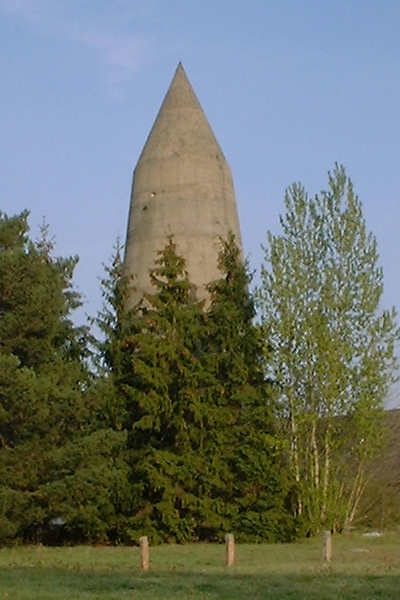 Bunker of type Winkel in Gießen, Germany